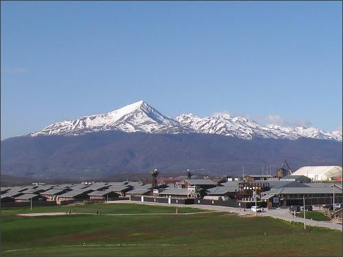 Mount Ljuboten, commonly referred to as Big Duke by US troops, looming over Camp Bondsteel, Kosovo